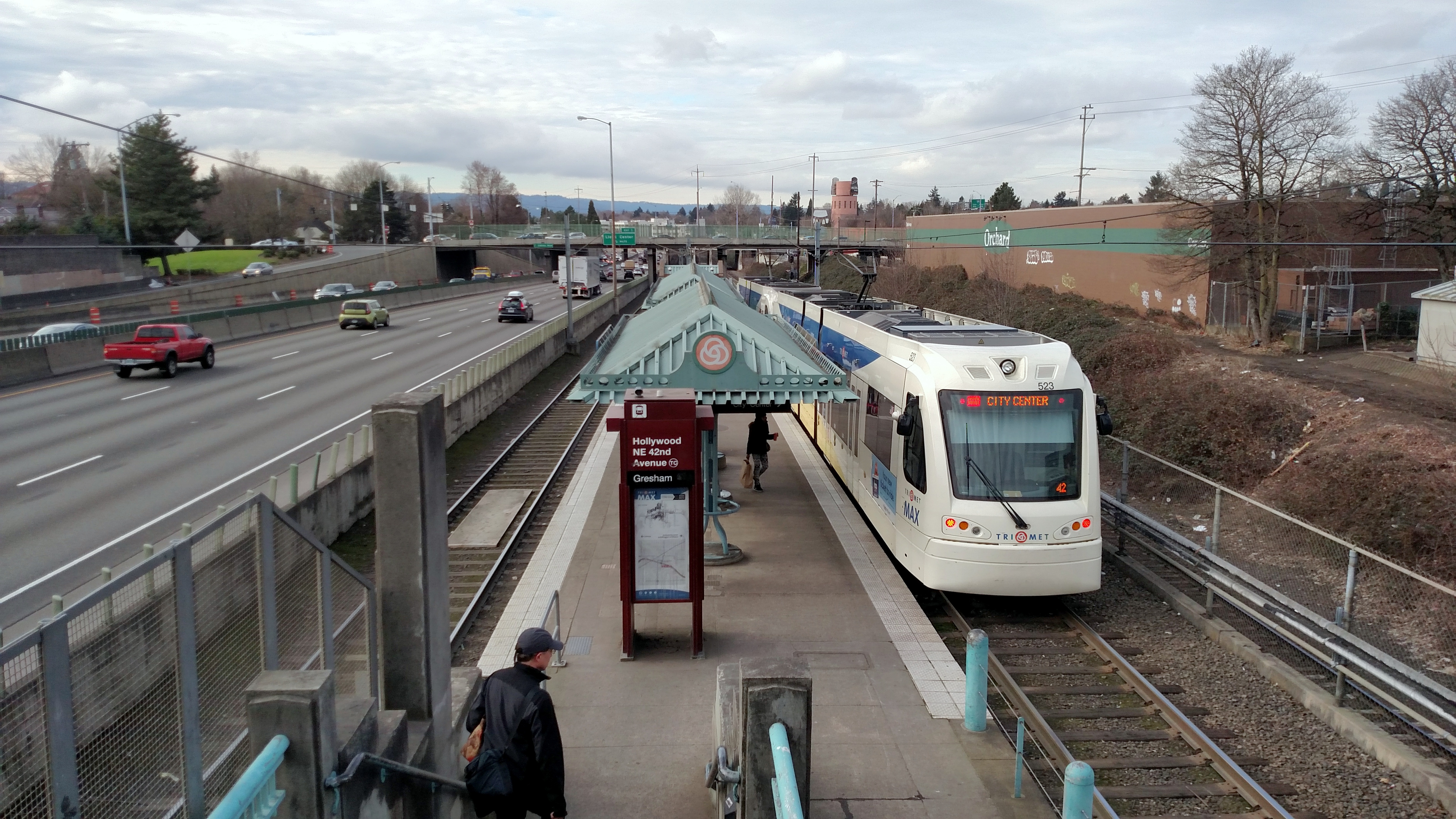 Downtown-bound Red Line train at Hollywood Transit Center in February 2018